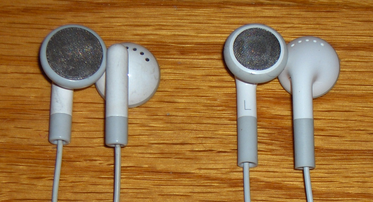 Two iPod earbuds. The left one is the "second generation earbuds", which is basically the "first generation earbuds" with a slider. It came with a second generation mini. The right set is the "third generation", the first major overhaul. It was announced in the same speech introducing the second generation iPod nanos, which is what it came from.